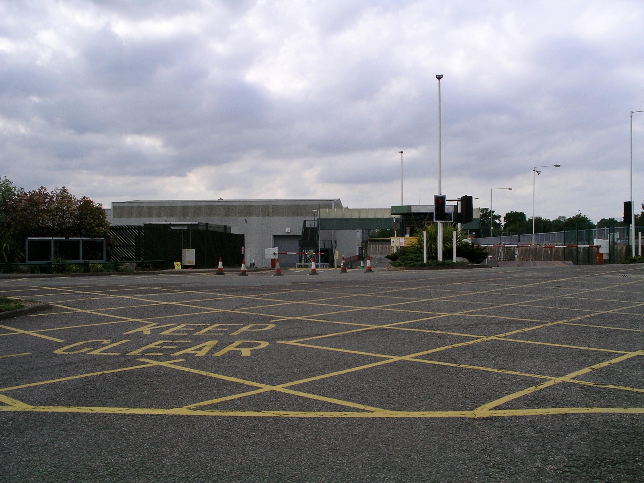 Photo of Browns Lane plant, Coventry, England. Phote from just within the main gate on Browns Lane.